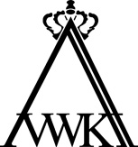 Logo Koninklijke Vlaamse Academie van België voor Wetenschappen en Kunsten (KVAB)